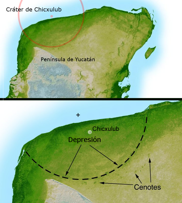 This shaded relief image of Mexico's Yucatan Peninsula show a subtle, but unmistakable, indication of the Chicxulub impact crater. Most scientists now agree that this impact was the cause of the Cretatious-Tertiary Extinction, the event 65 million years ago that marked the sudden extinction of the dinosaurs as well as the majority of life then on Earth.